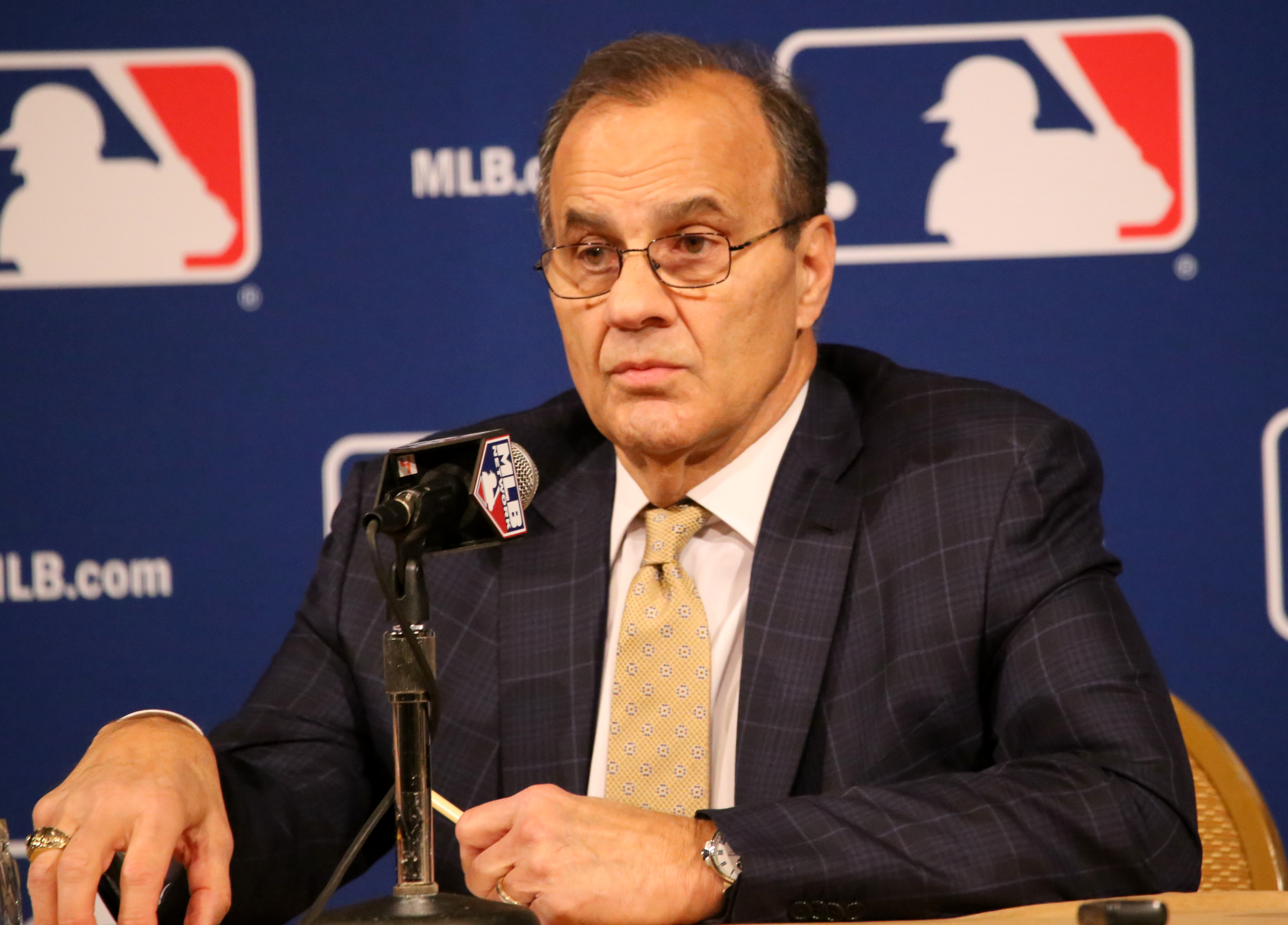 Joe Torre talks to reporters at the Winter Meetings.